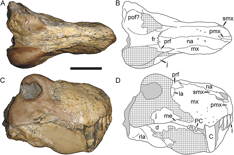 Holotype (RC 1) of Dinogorgon rubidgei Broom, 1936 in (A) dorsal and (C) right lateral view (with (B) and (D) interpretive drawings). Abbreviations: C, upper canine; d, dentary; fr, frontal; I, upper incisor; j, jugal; la, lacrimal; me, maxillary emargination; mx, maxilla; na, nasal; PC, upper postcanine; pmx, premaxilla; pof, postfrontal; prf, prefrontal; rla, reflected lamina of angular; smx, septomaxilla. Gray indicates matrix, hatching indicates plaster. Scale bar equals 10 cm.